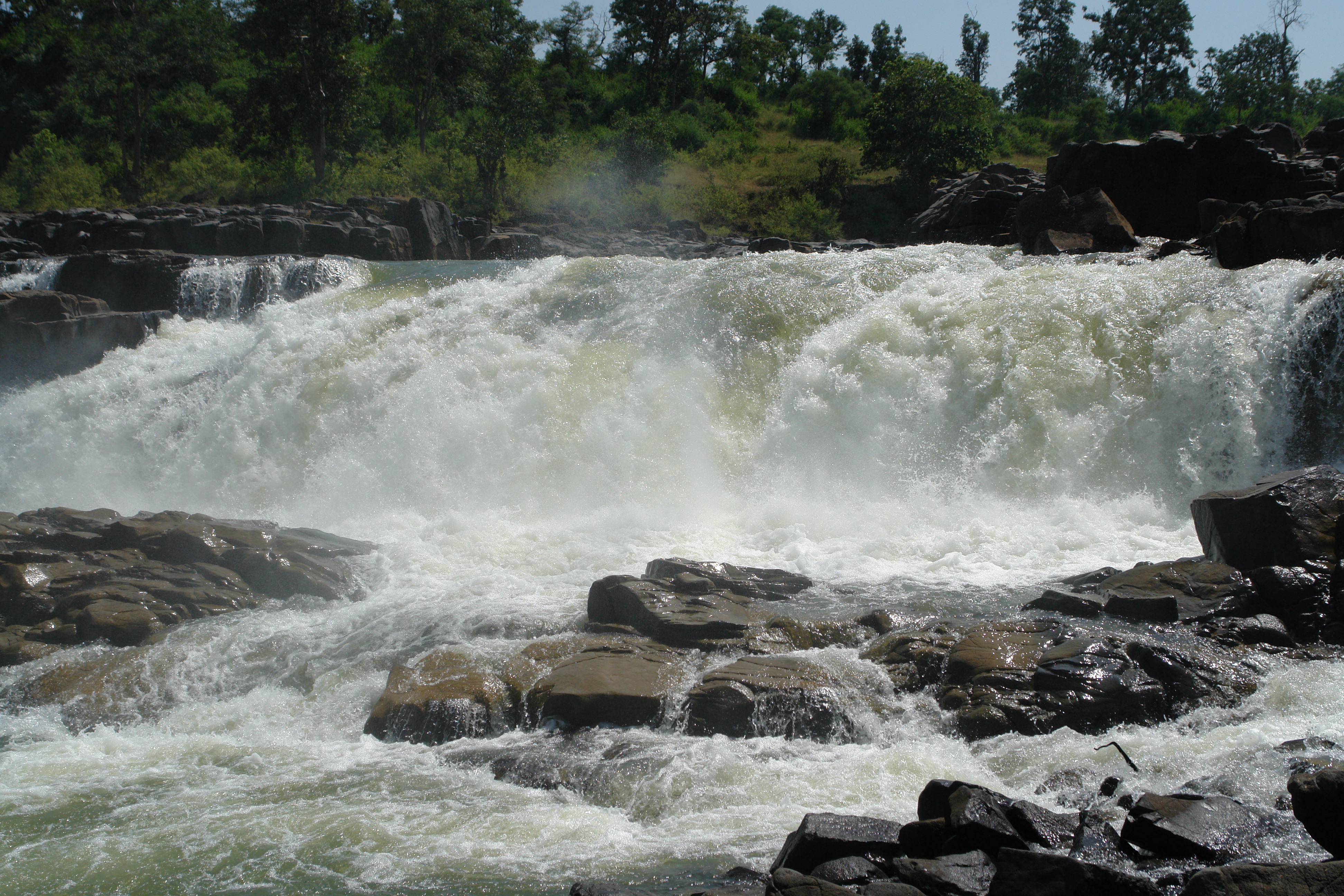 Waterfall on Johilla river, Chechpur, Umaria district, Madhya Pradesh, India.